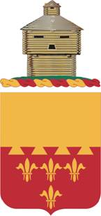 106th Cavalry Regiment Coat of Arms Description/Blazon Shield Per fess dovetailed Or and Gules, in base four fleurs-de-lis, three and one, of the first. Crest That for the regiments and separate battalions of the Illinois Army National Guard: On a wreath of the colors Or and Gules upon a grassy field the blockhouse of old Fort Dearborn, Proper. Motto UTCUMQUE UBIQUE (Anywhere At Any Time). Symbolism Shield The shield is divided per fess dovetailed Or and Gules (yellow and red), denoting that the organization has served as Artillery as well as Cavalry. Red and yellow, being the Spanish colors, also indicate Spanish-American War service within the continental limits of the United States. The fleurs-de-lis on the red portion symbolize the combat operations of the organization in Europe during World War I and World War II. Crest The crest is that of the Illinois Army National Guard. Background The coat of arms was originally approved for the 106th Cavalry Regiment, Illinois and Michigan National Guard on 17 December 1930. It was amended to change the wording of the description to reflect the correct period of service on the Mexican Border on 30 December 1932. It was redesignated for the 106th Heavy Tank Battalion, Illinois and Michigan National Guard on 3 October 1949. It was amended to delete the crest for organizations of the Michigan National Guard on 6 October 1949. It was redesignated for the 106th Tank Battalion, Illinois National Guard on 19 October 1953. The insignia was redesignated for the 106th Armor Regiment, Illinois National Guard on 13 December 1960. It was redesignated for the 106th Cavalry Regiment, Illinois Army National Guard on 7 January 1965. It was amended to change the symbolism of the shield of the coat of arms on 7 October 1969.